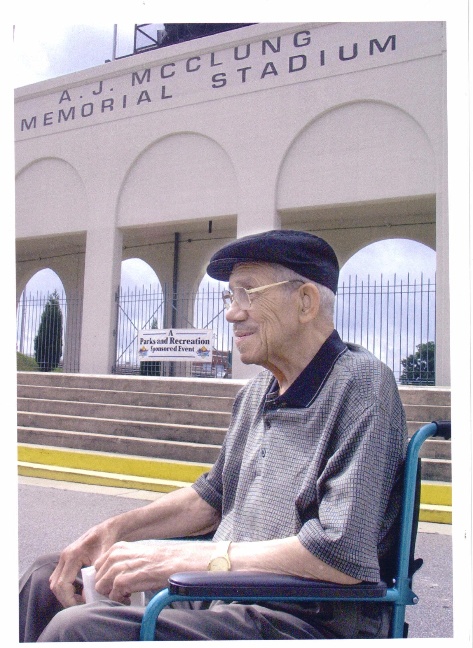 A. J. McClung at the stadium named for him — the A. J. McClung Memorial Stadium in Columbus, Georgia. Former mayor of Columbus, and a Civil rights leader in the United States.